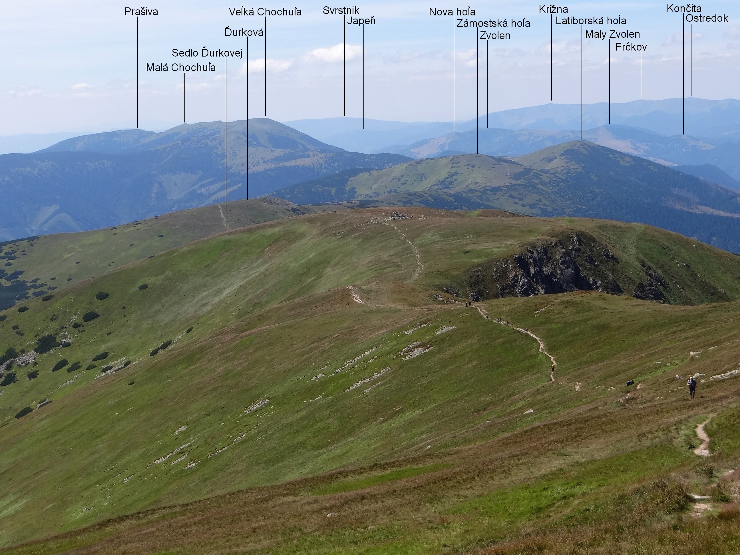 View from Chabenec